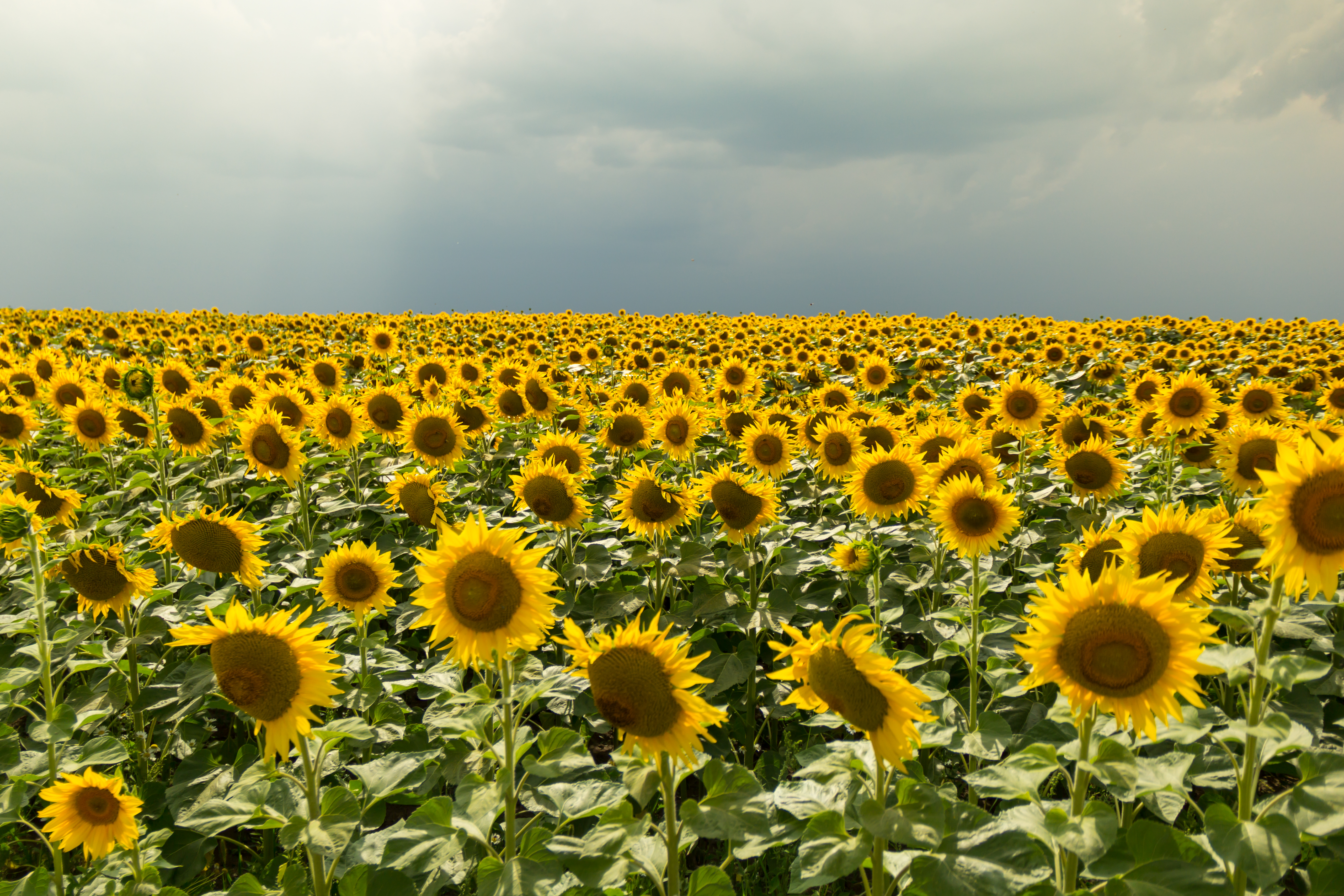 Pitelinsky District, Ryazan Oblast, Russia